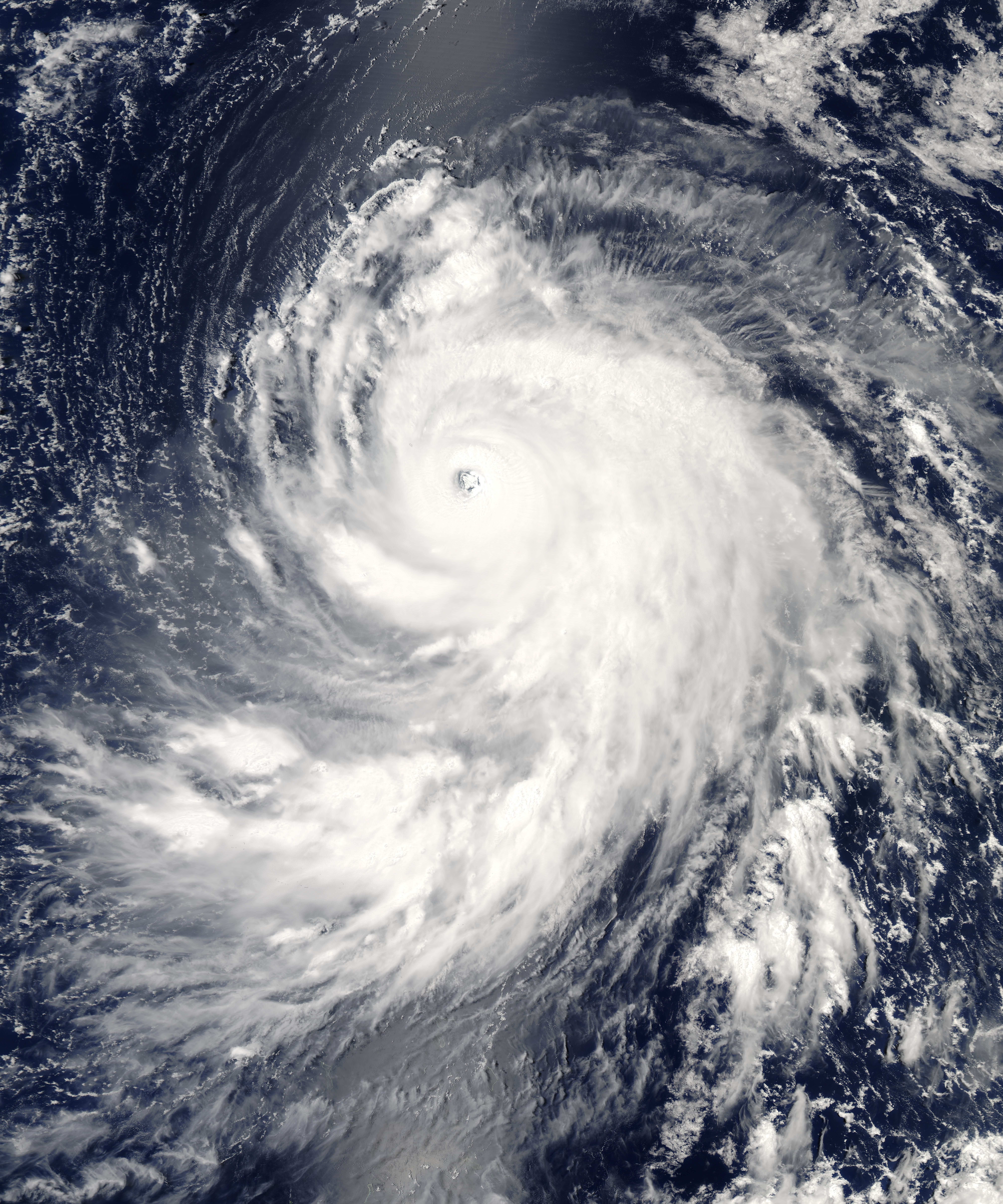 Super Typhoon Ioke (01C) over Wake Island